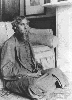 Rabindranath Tagore Hampstead England 1912